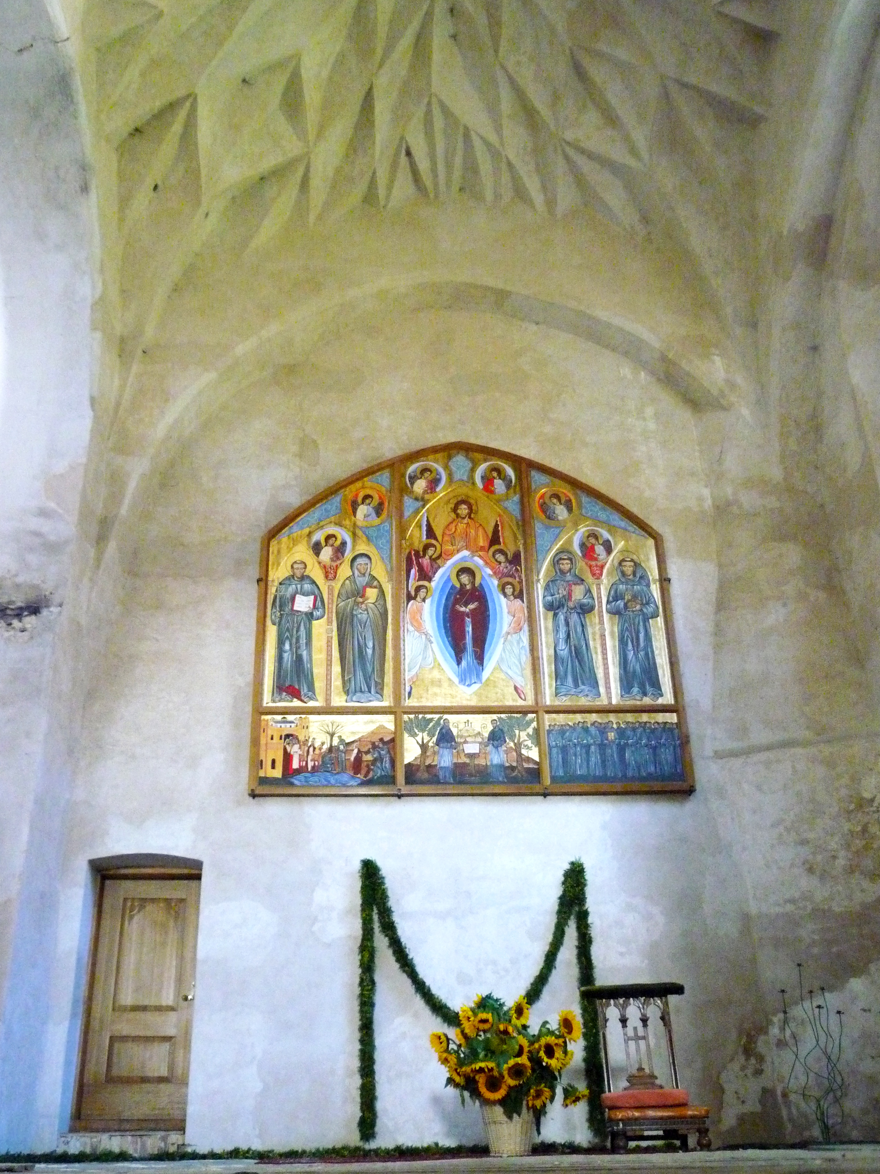 Franciscan painting in the right part of the church